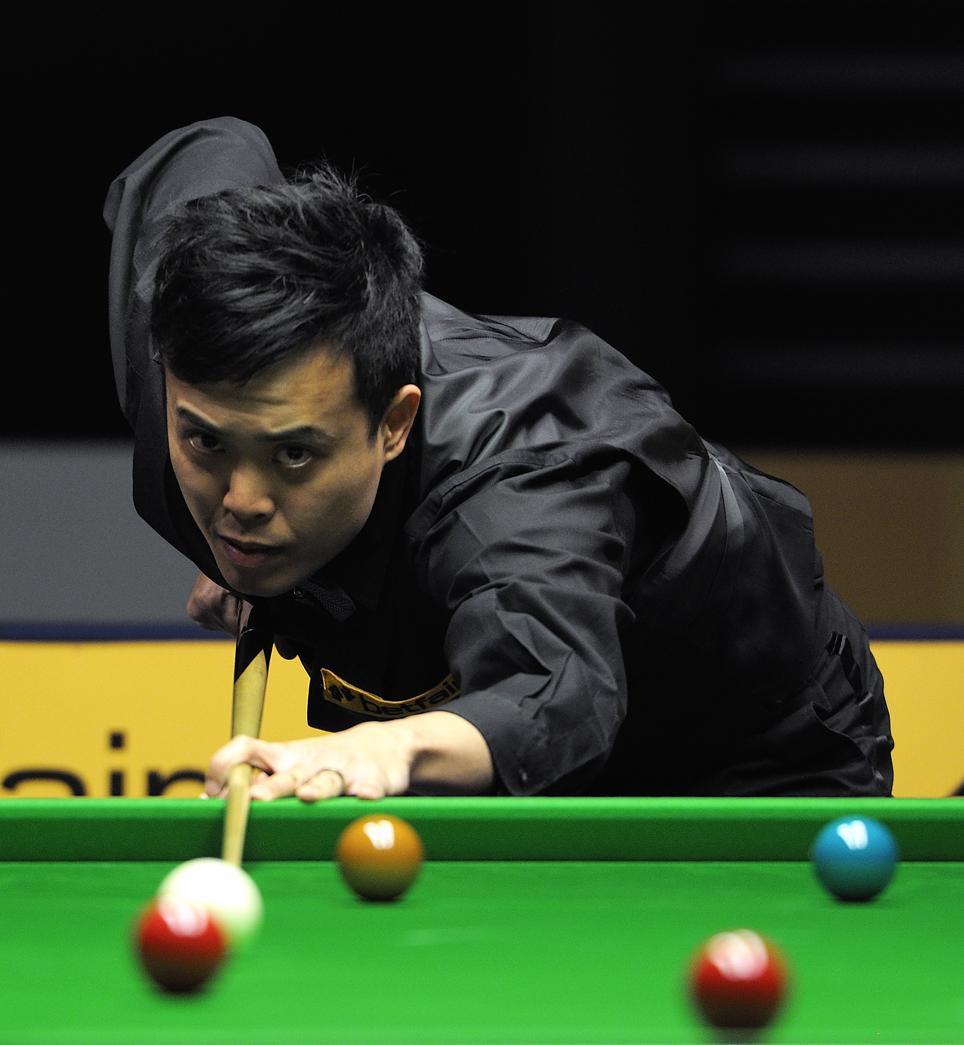 Picture taken in Berlin during the Snooker German Masters in 2013. Marco Fu.